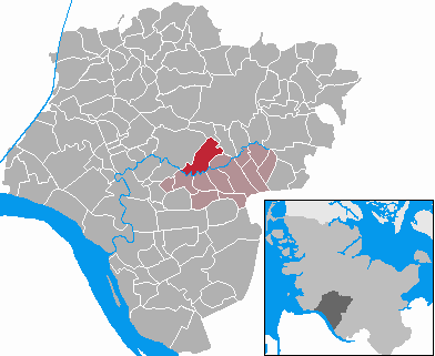 This map shows the area of the municipality Oelixdorf in the Kreis (district) Steinburg, Schleswig-Holstein, Germany.